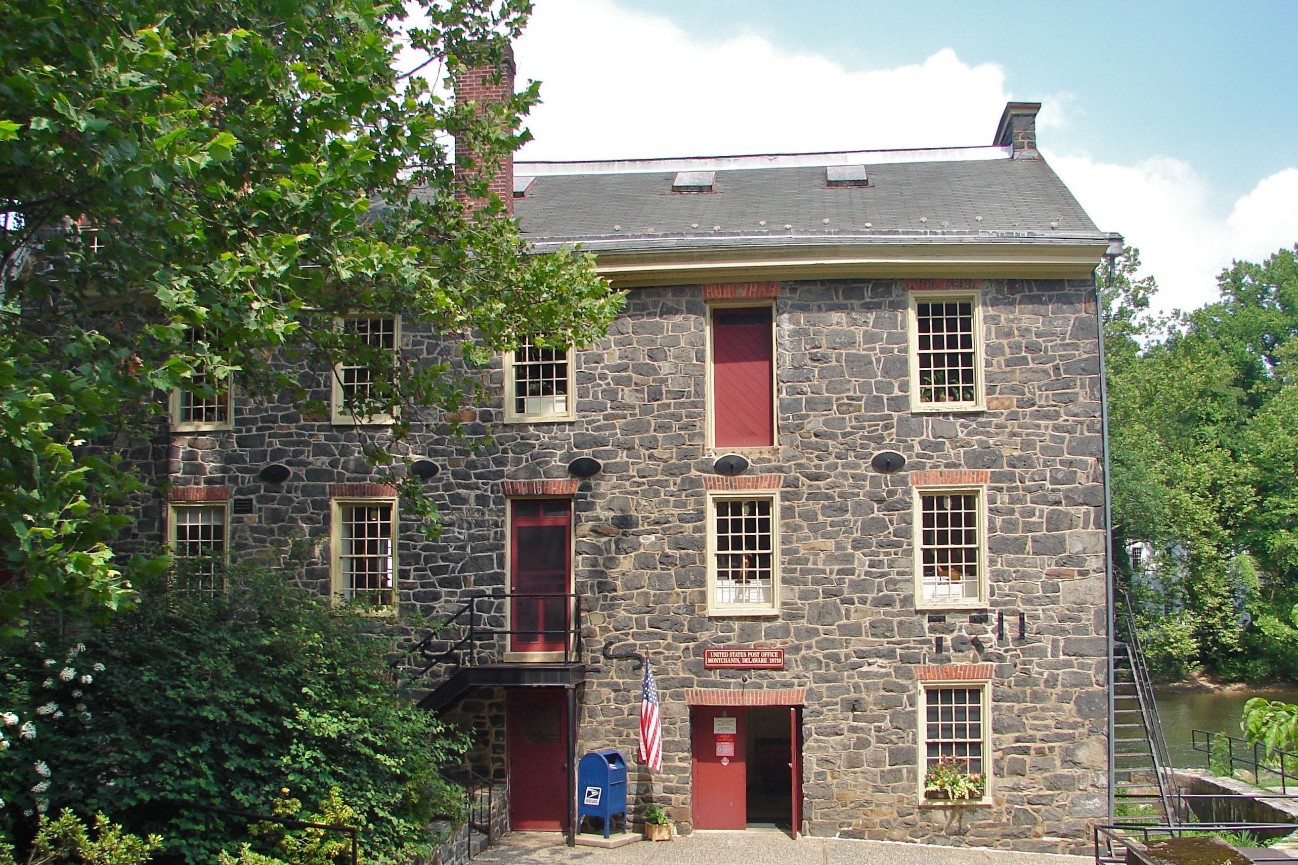 Breck's Mill Area on the NRHP since November 5, 1971. At Breck's Lane and Creek Rd., near Hagley Museum, about 1 mile north of Wilmington, Delaware.